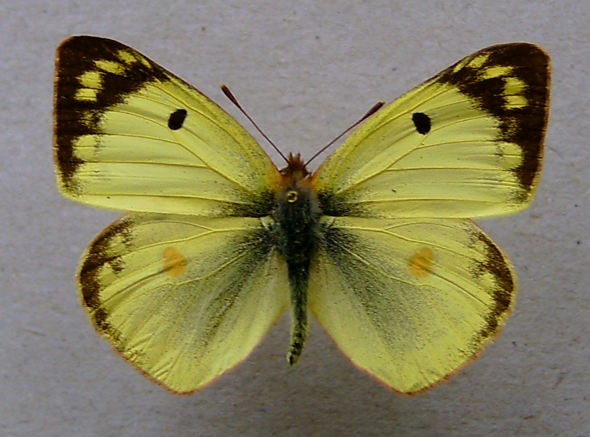 Colias hyale male